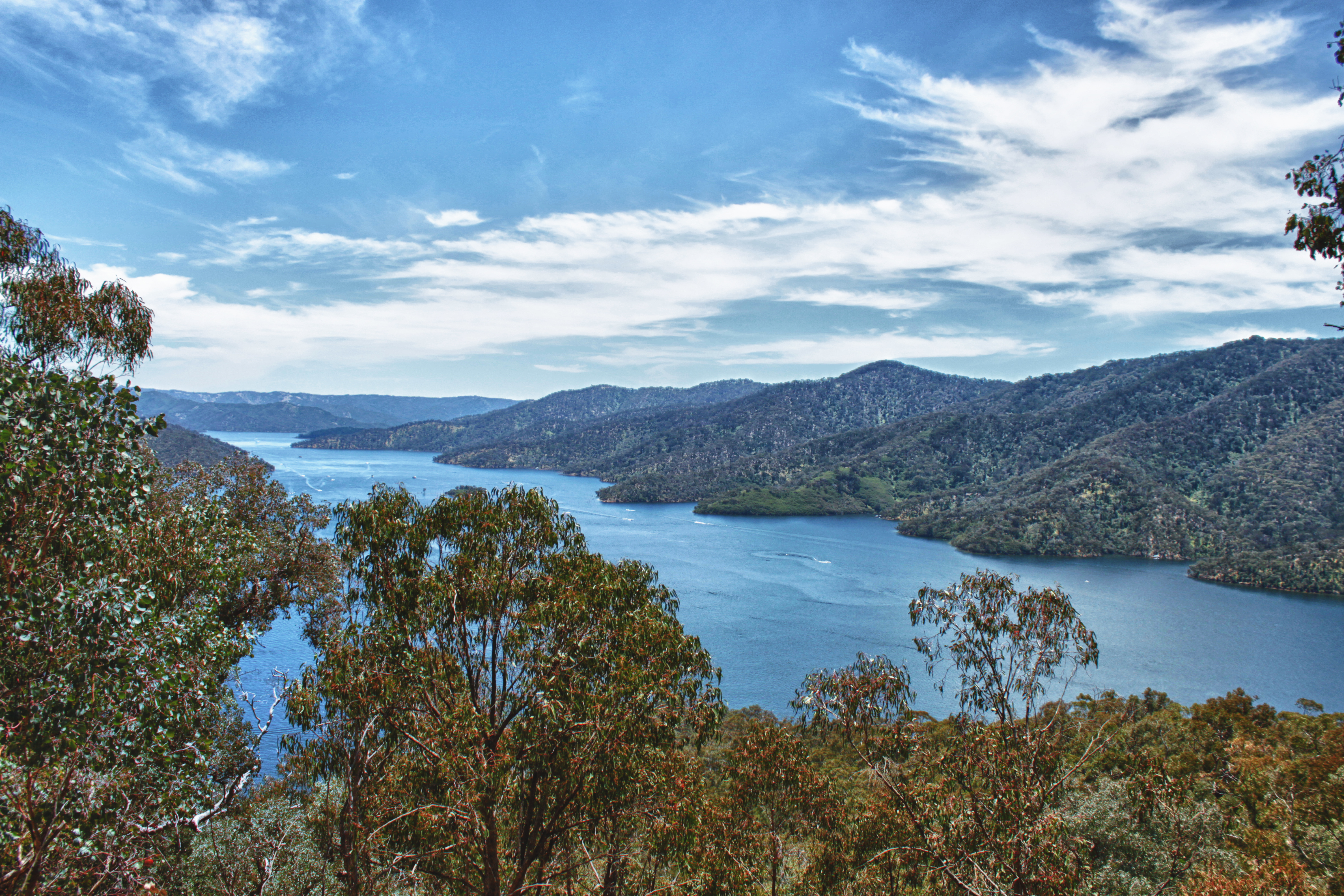 Lake Eildon late 2011